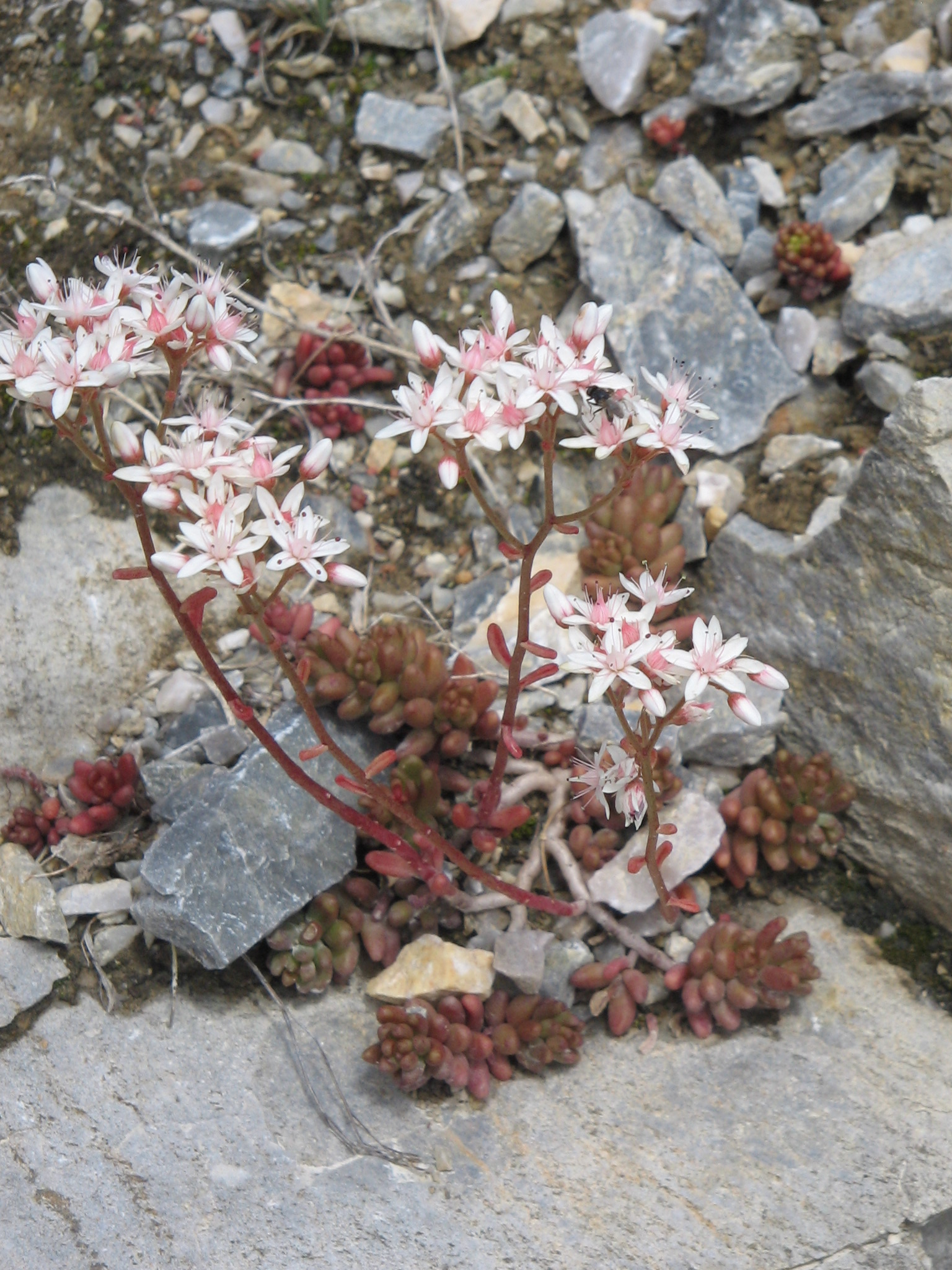 Sedum album